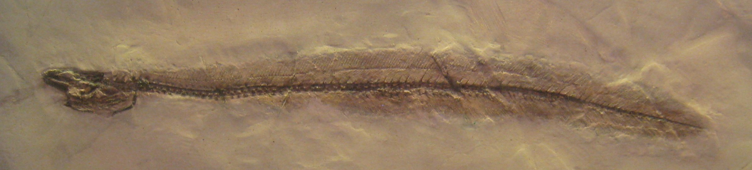 Cropped image of taxon in file name